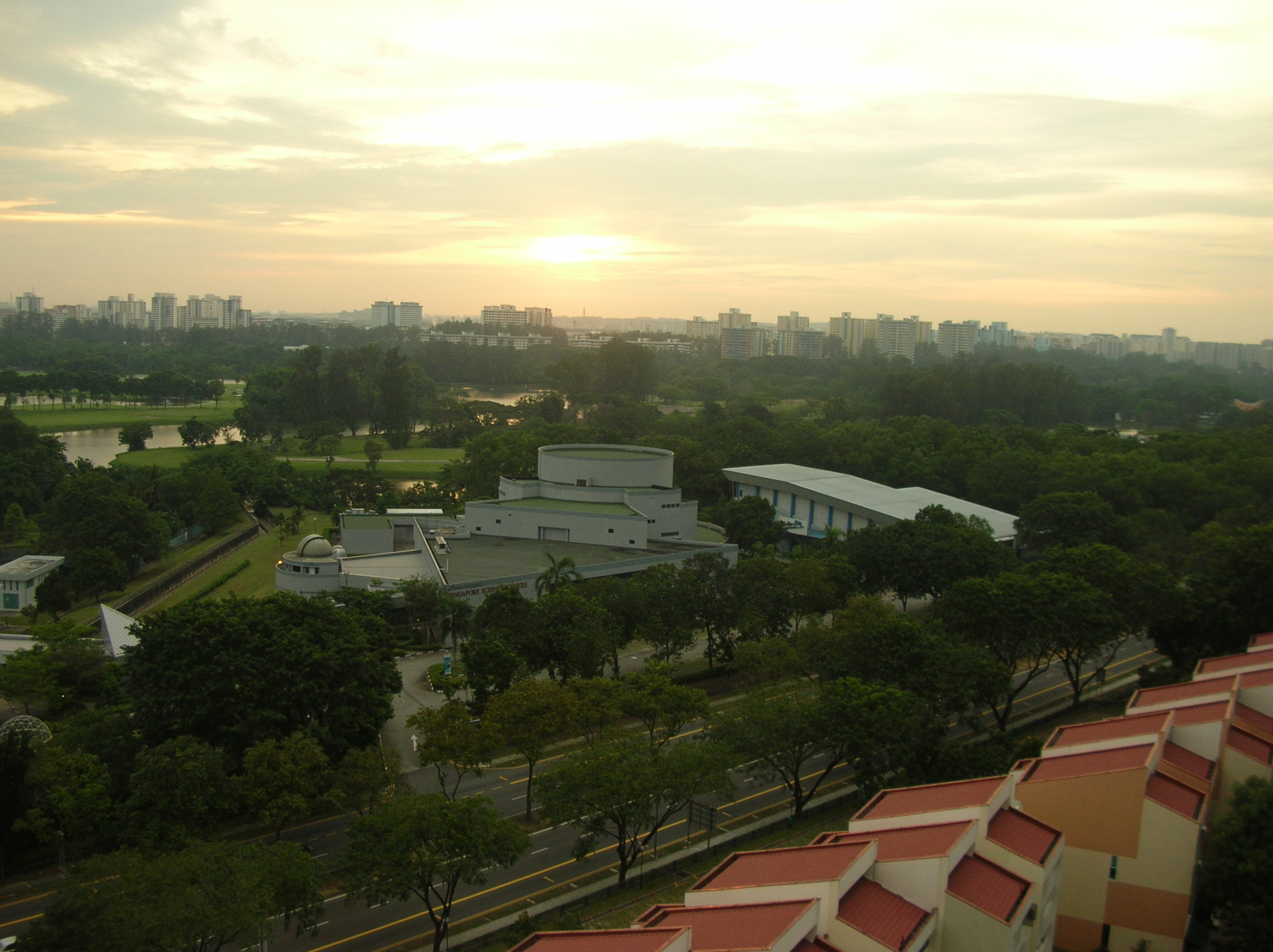 An aerial view of the Singapore Science Centre (known after 7 December 2007 as the Science Centre Singapore) in the evening.